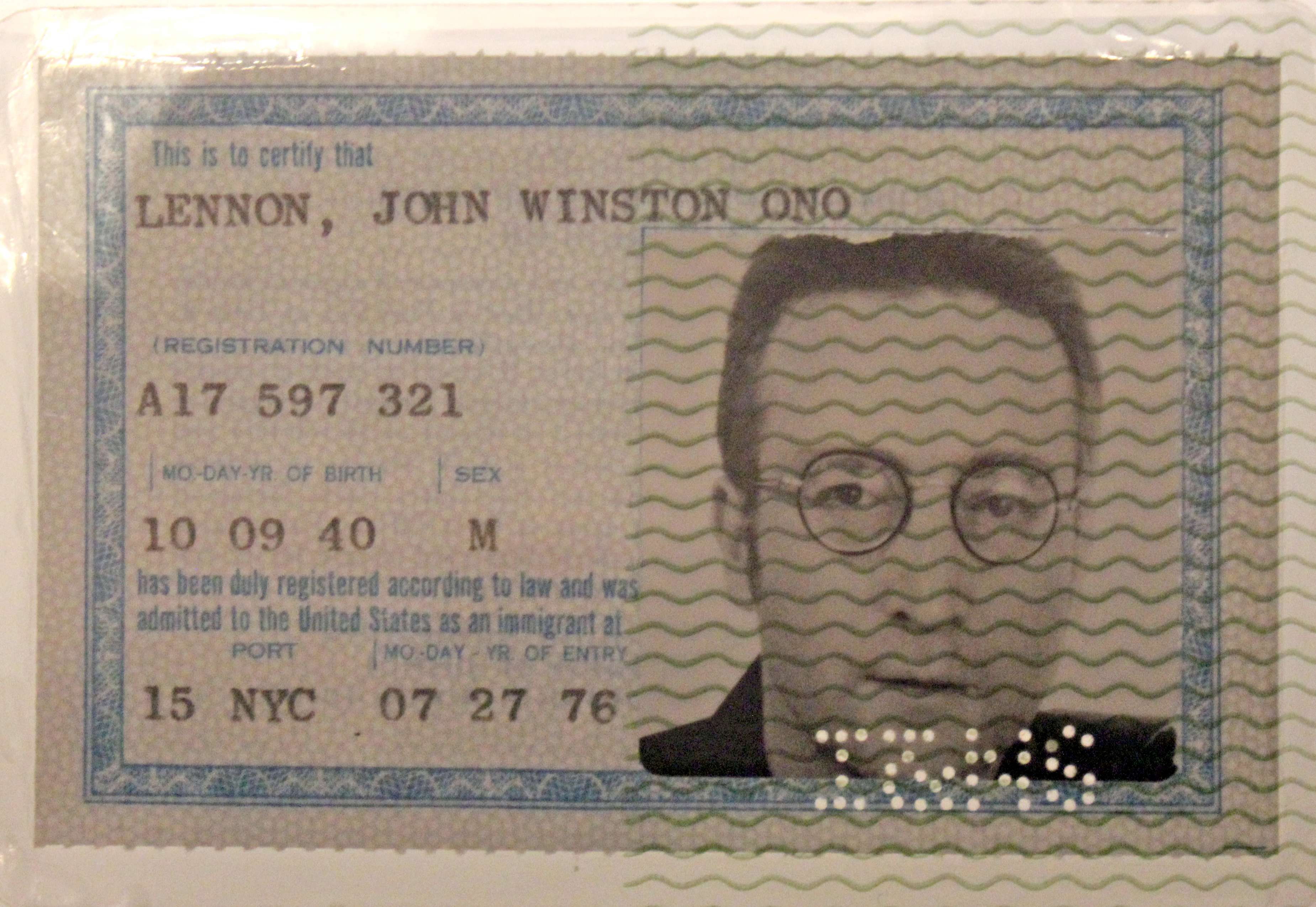 Lennon's Green Card allowing him to live and work in the United States, finally awarded in 1976.